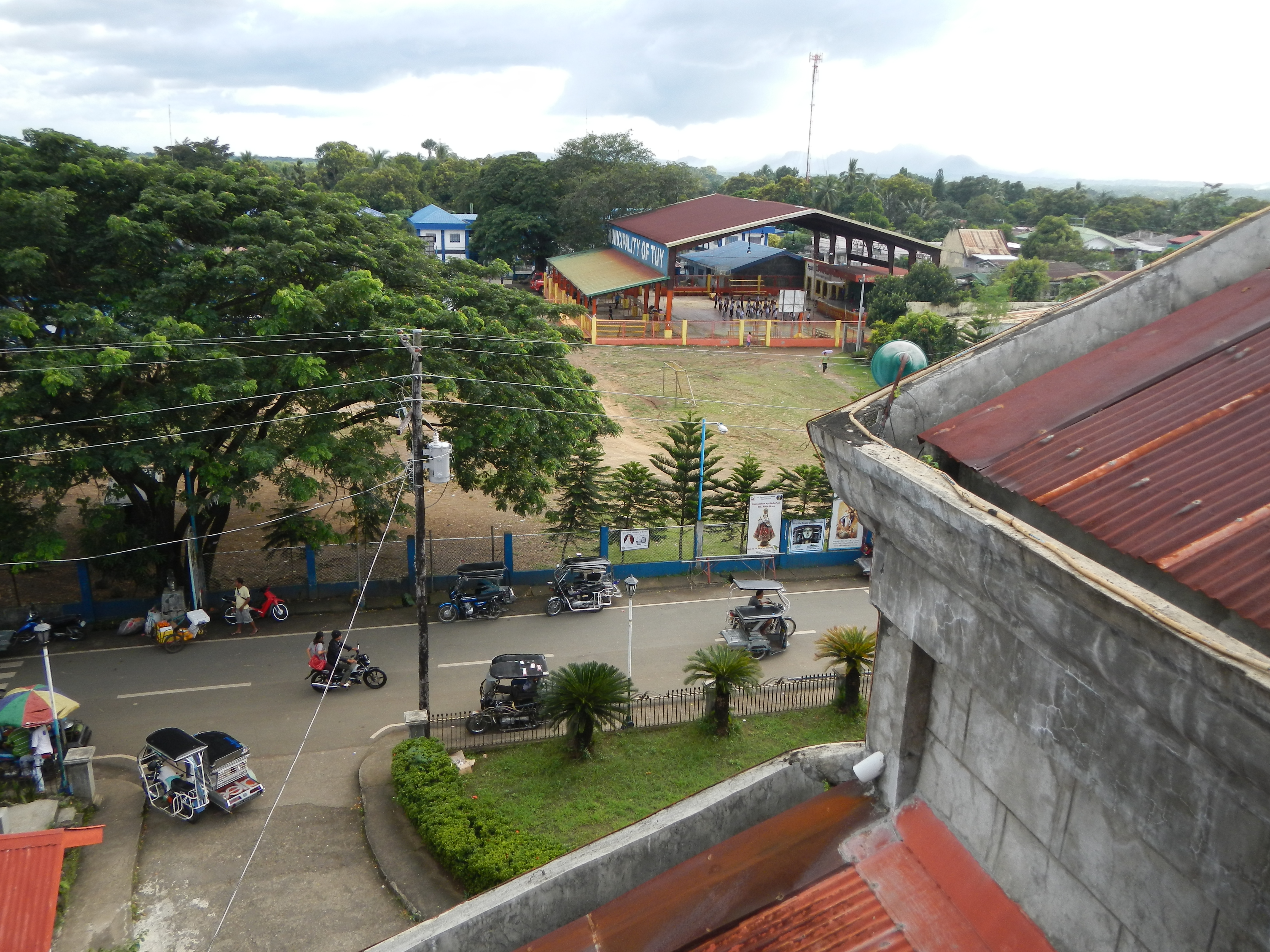 Upload Wizard photo-views of the - the - bell tower, belfry surrounded by Philippine bats (Ancient churches face major threat – from bats UCAN Philippines) at the - Saint Vincent Ferrer Parish Church of Tuy, Batangas, Vicariate I: Vicariate of Saint Francis Xavier, [1] belongs to the Roman Catholic Archbishop of Lipa[2] [3] Roman Catholic Archdiocese of Lipa - Tuy, Batangas[4] (a third class municipality in the Province of Batangas, Philippines; politically subdivided into 22 barangays; population of 40,246 people in 8,925 households.) - its official and logo [5], the - Tuy Municipal Hall Complex offices, Coordinates: 14°1'7"N 120°43'48"E, including the Sangguniang Bayan Session Hall and Offices, Town Proper,Town Plaza, Covered Basketball Court, Gomez st. cor. Rizal st., Barangay Luna Hall, Municipal Engineer's Office, Tuy Food Plaza, Tuy Public Market, Plaza, Park, Centro, downtown, Town Proper, TMVCMPC, Police Station, Tuy Vocational School, among others - Our Lady of Peace Academy Coordinates: 14°1'12"N 120°43'50"E [6]).